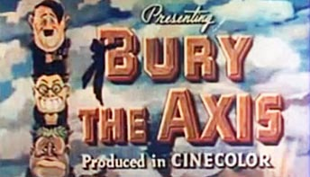 Title screen of British war propoganda animation 'Bury the Axis'